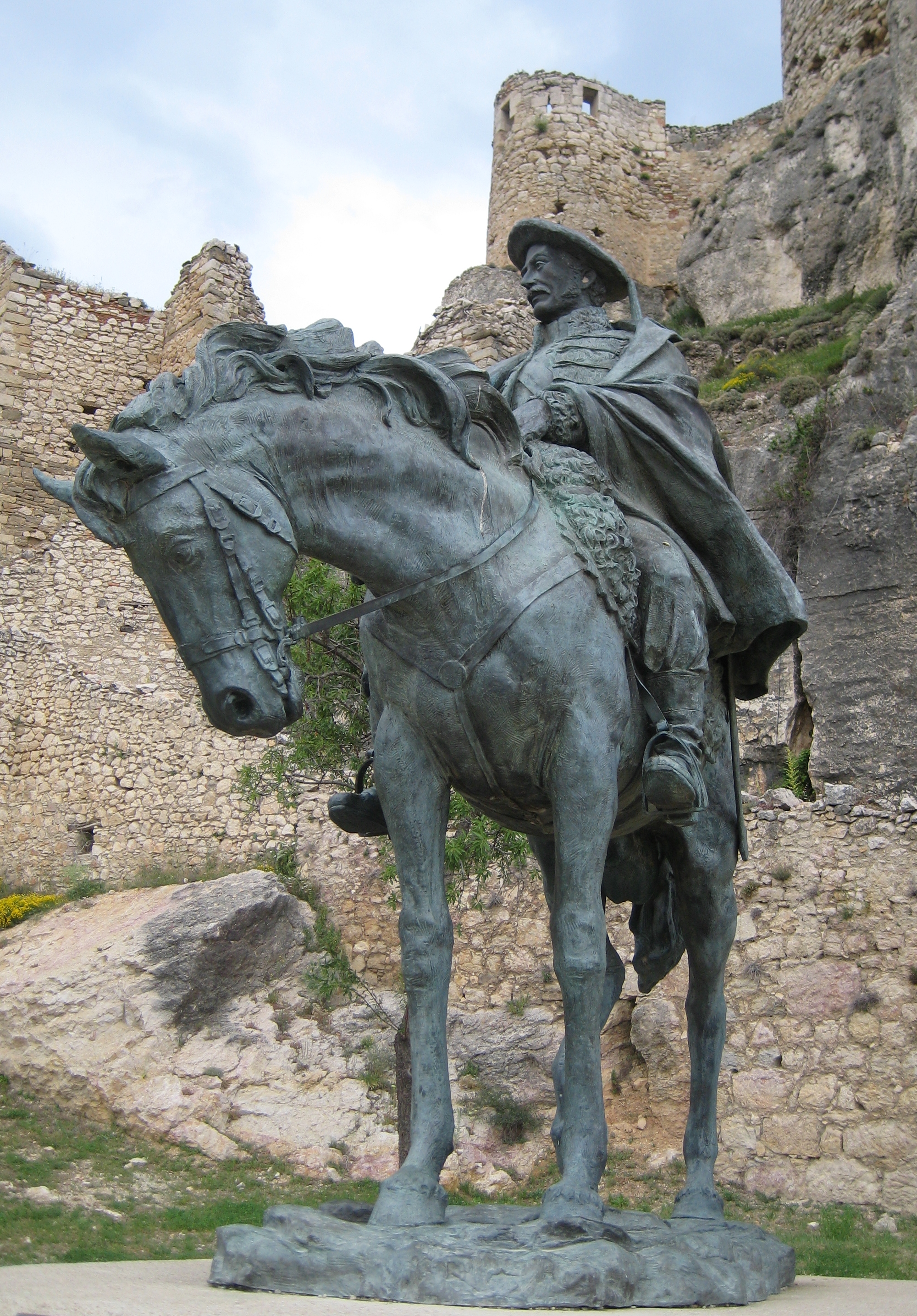 Monument to Ramón Cabrera at the Castle of Morella.